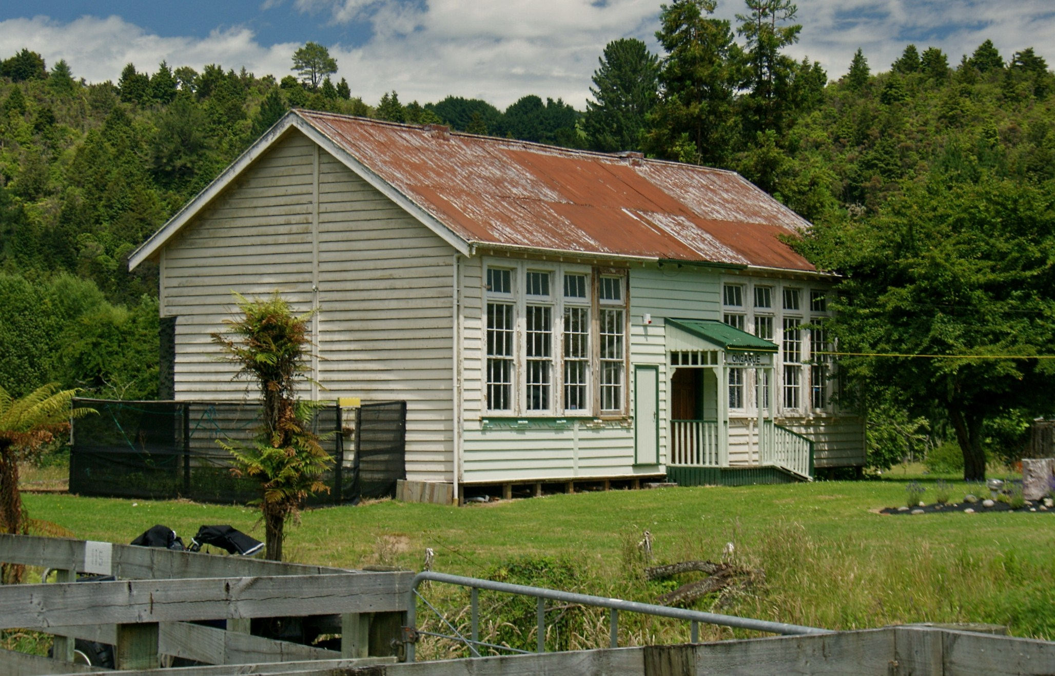 School building at Ongarue, New Zealand